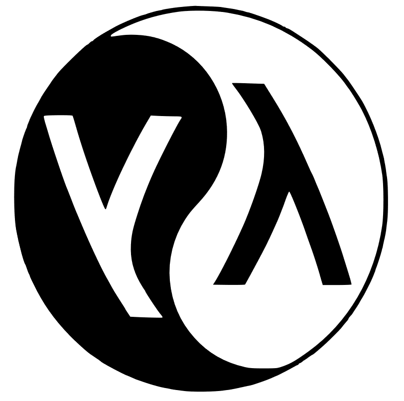 The Lisp logo from